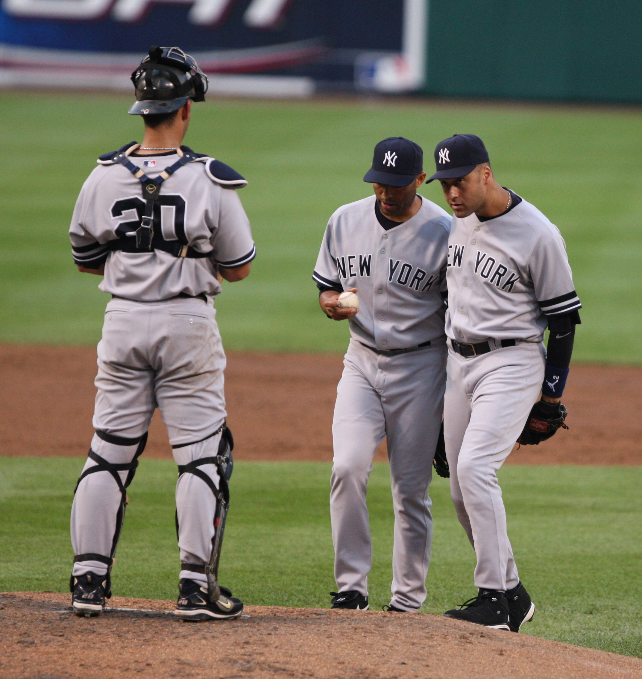 Jorge Posada (#20, left) with Mariano Rivera (middle) and Derek Jeter (right)